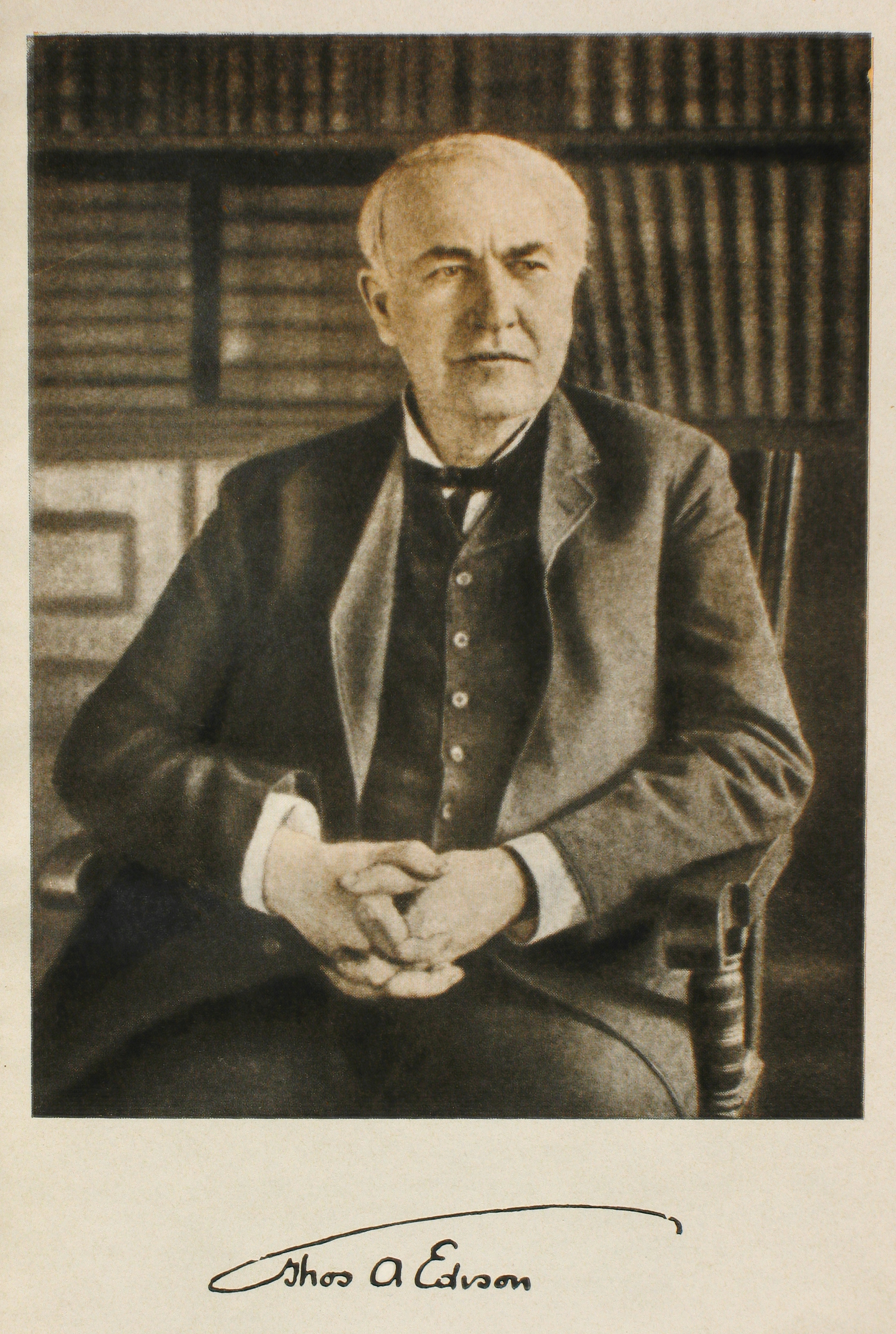 Thomas Alva Edison photo and signature. 1915.